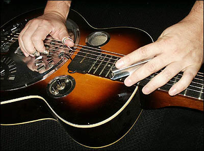 Lubos Bena playing a resophonic guitar in the lap position with fingerpicks and steel slide. Copyright © 2006 Lubos Bena. Source: [1] (image: [2]) Permission granted to use images from See Wikipedia:Successful requests for permission/Lubos Bena for permission details.